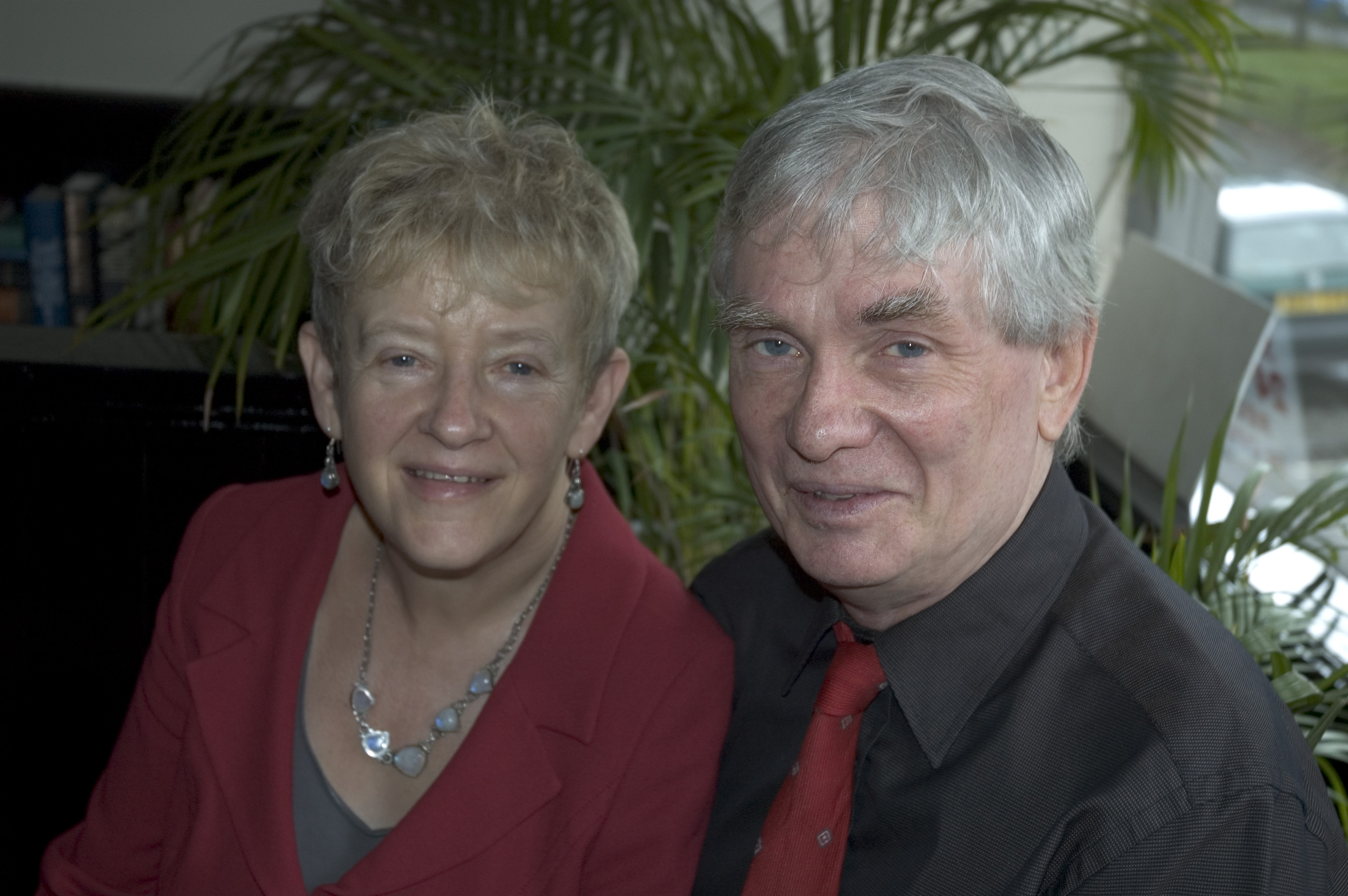 Photograph of the authors P.J. Brooke